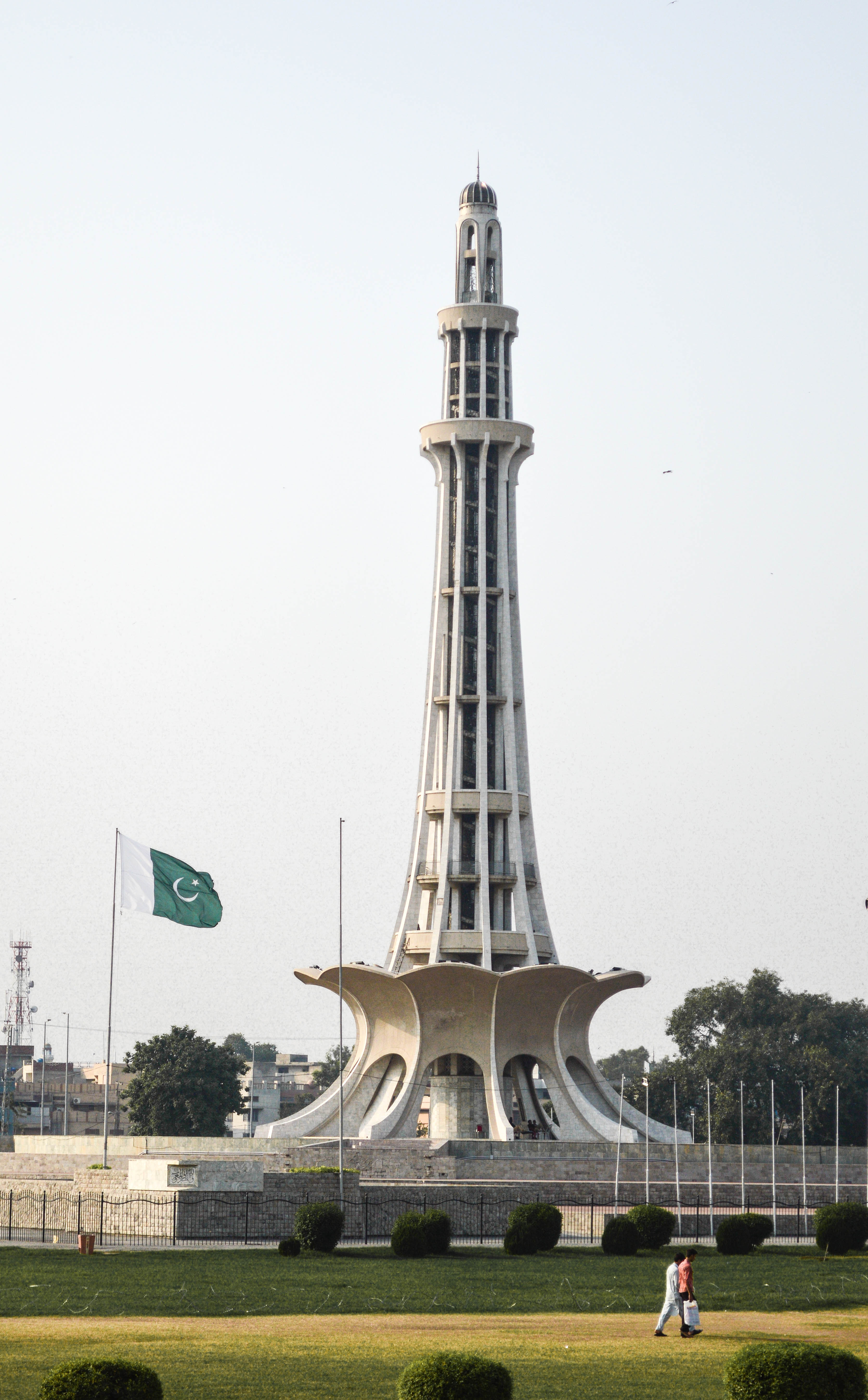 Minar-e-Pakistan located in Lahore This is a photo of a monument in Pakistan identified as the PB-73